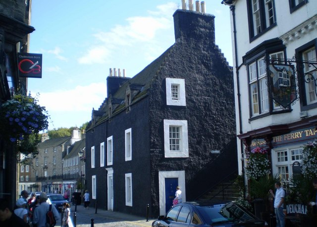 Black Castle Built in 1626 this is the oldest house in South Queensferry. When the sea captain who built it was lost at sea the housemaid was accused of paying a beggar woman to cast a spell on him. Both were burned as witches.